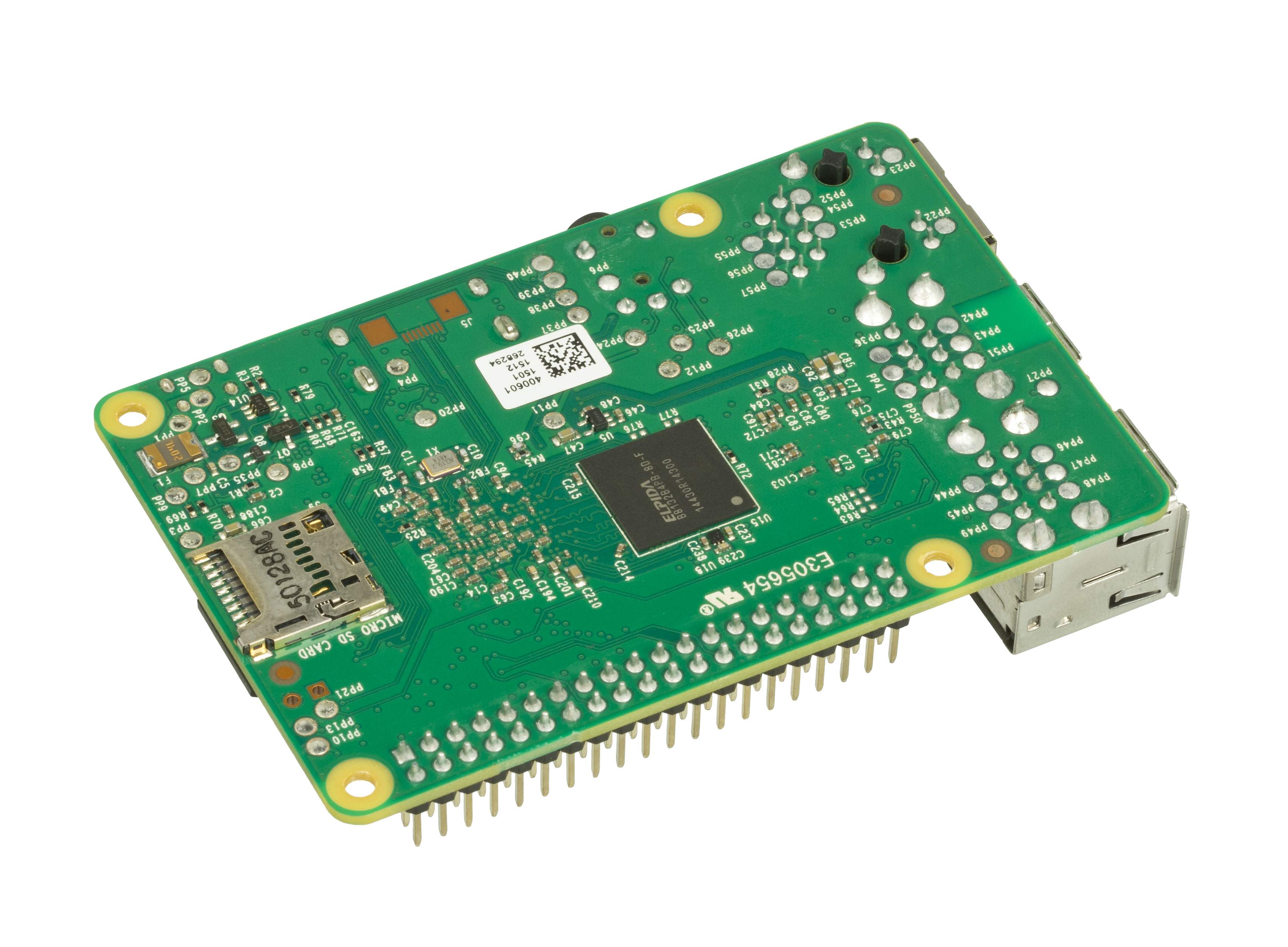 The bottom of a Raspberry Pi 2 (model B), showing a Micro-SD expansion slot. The Raspberry Pi 2 is an inexpensive ($35) and self-contained micro-computer that features a 900 MHz, 32-bit quad-core ARM processor and 1 GB of RAM. Built by the Raspberry Pi Foundation, it is designed to be an easy and accessible platform to promote computer science. The Pi has also become a popular computer for hobbyists, who use it for personal projects, video game emulators and digital media playback.